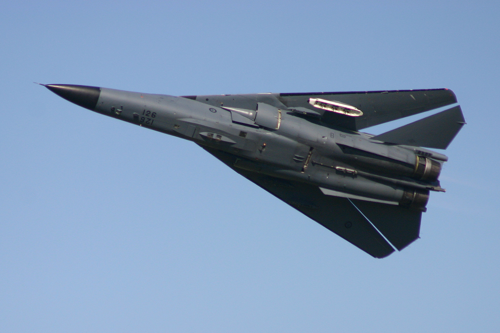 The belly of a Royal Australian Air Force RF-111C strike and reconnaissance aircraft